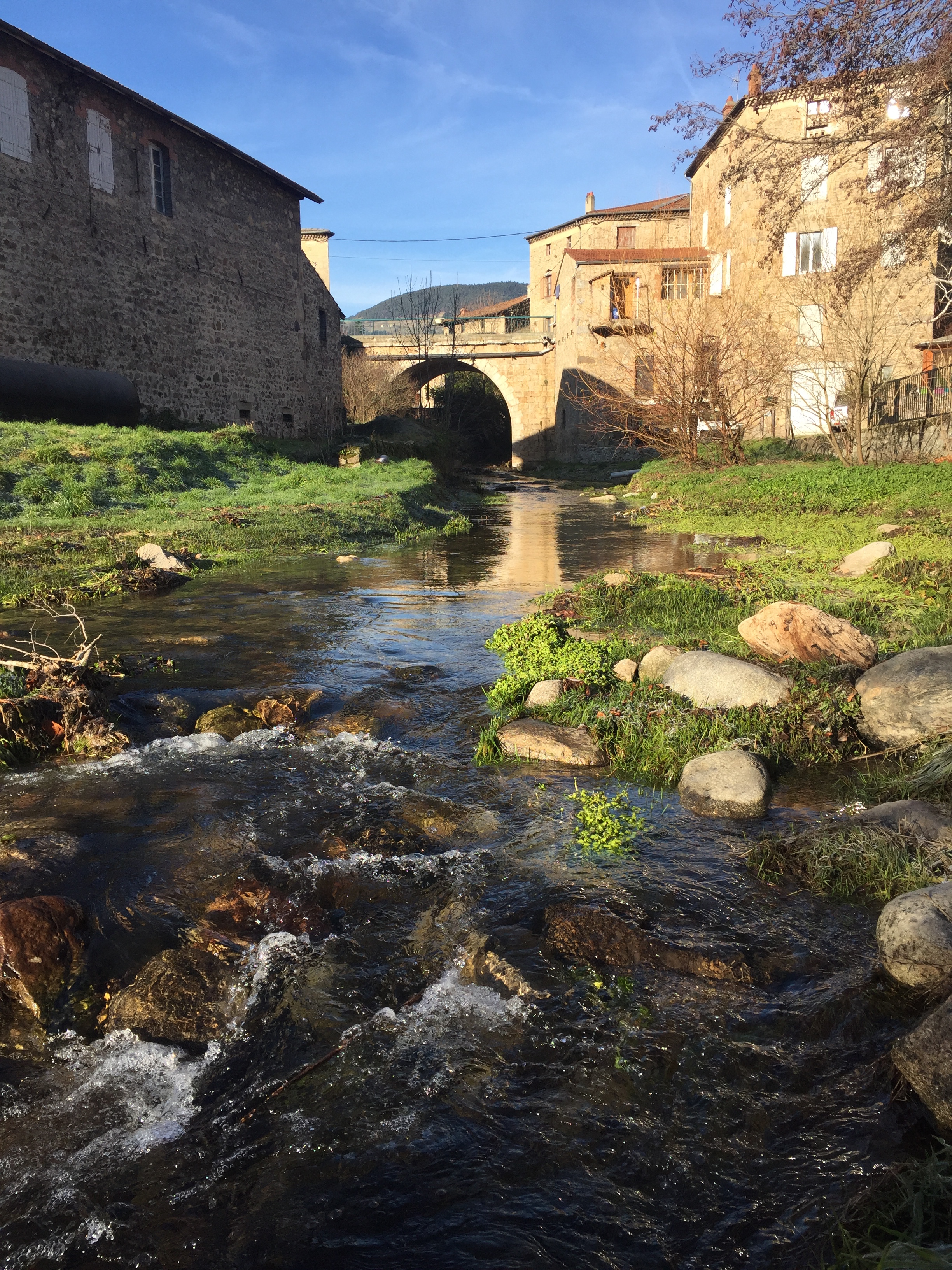 The bridge over the Malbuisson river, Villevocance (Ardèche, France)